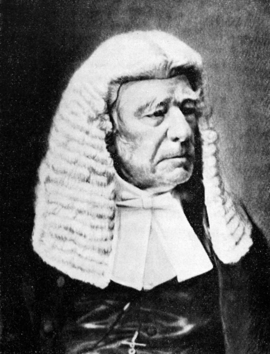 Sir Christoffel Brand (1797-1875), jurist, politician and first Speaker of the Cape parliament